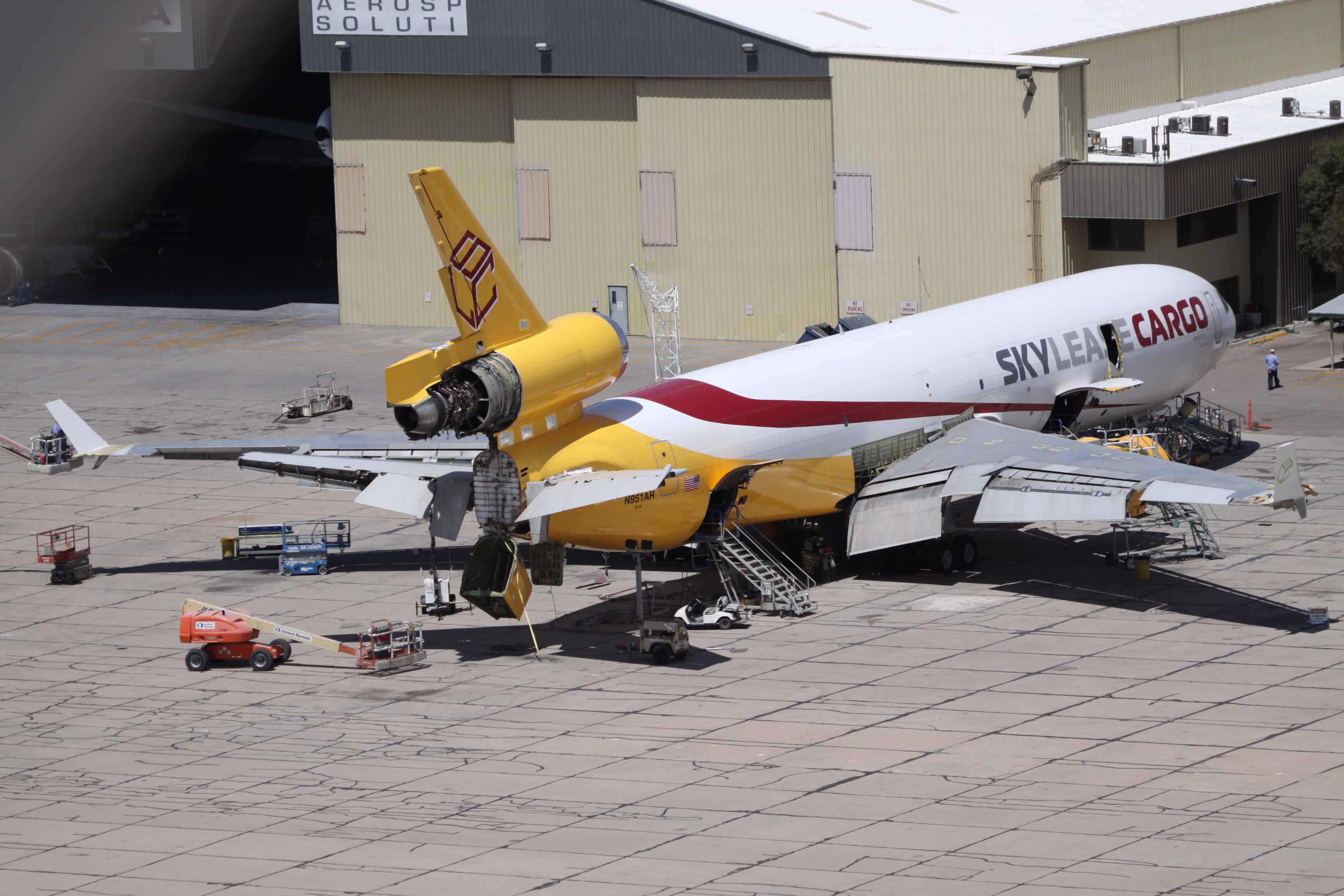 At Marana Pinal Airpark